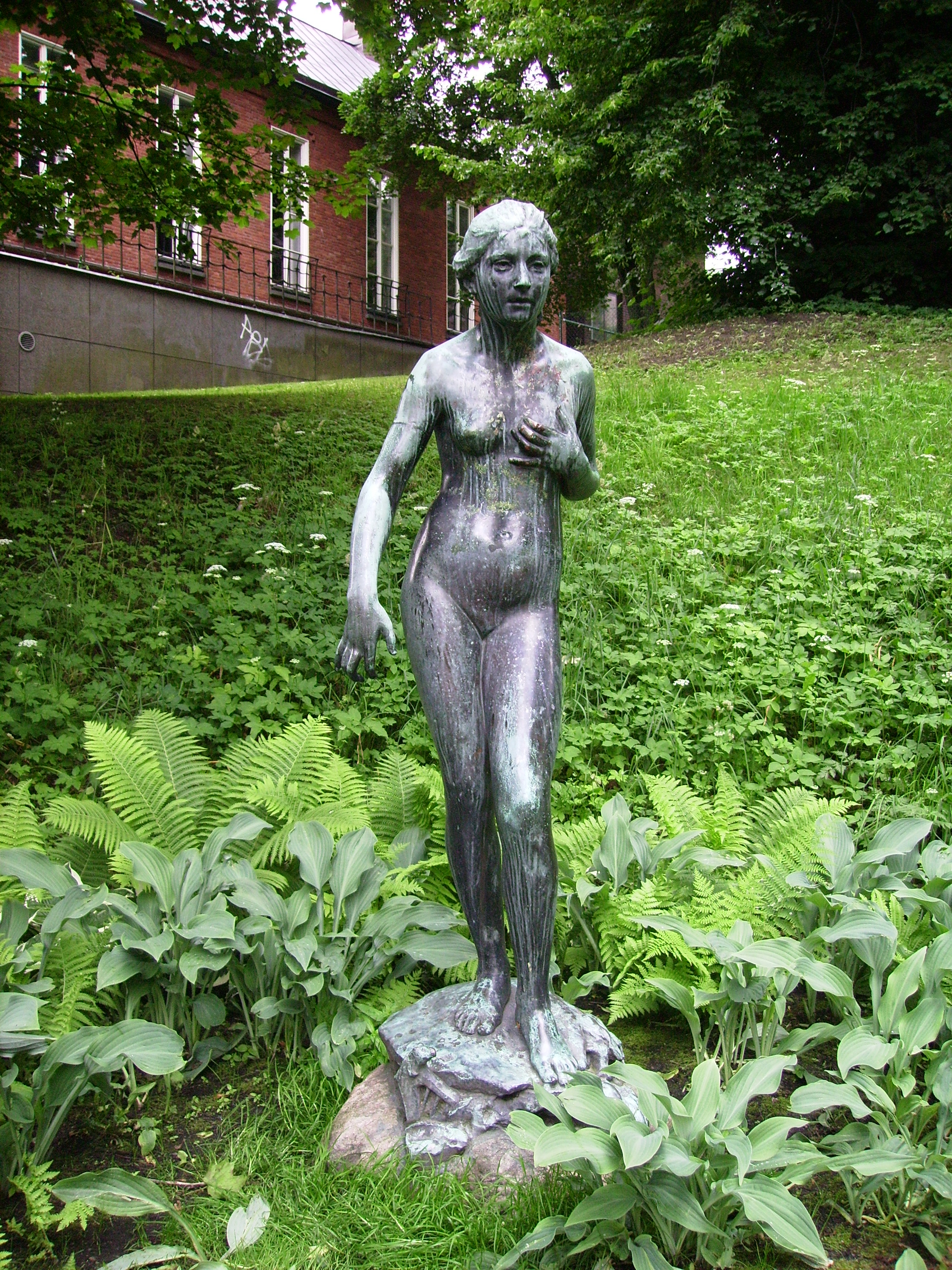 Vågens tjusning, statue in Göteborg